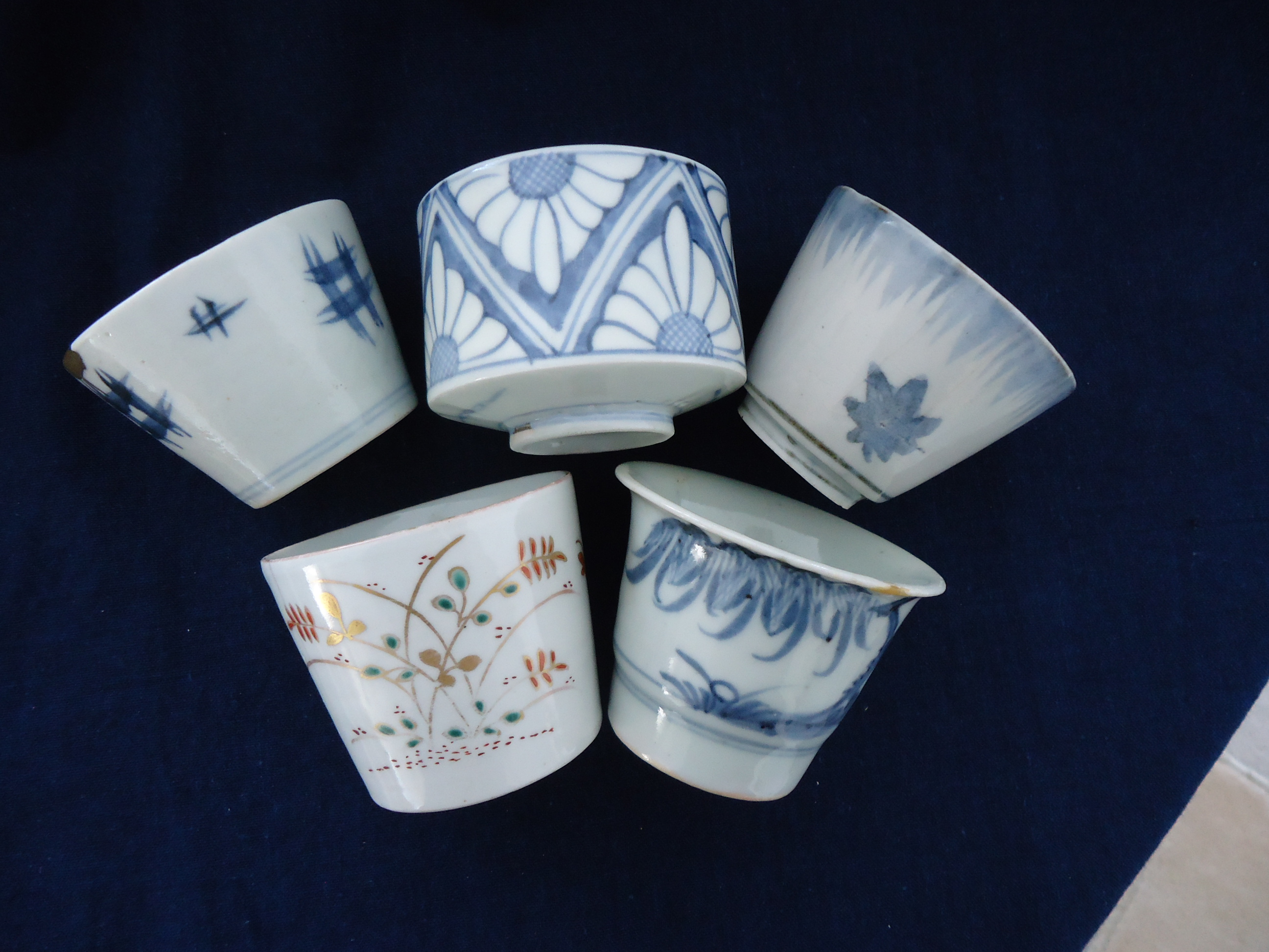 These soba-choko depict the typical production styles used across the ko-Imari period. Betazoku (even taper), Han tutsu (raised base tea bowl), Atsude kodai (raised base rim), Yunomi (taller than wide), Janome kodai (eye base design) and Ensori (fluted) with ornate folded rim.